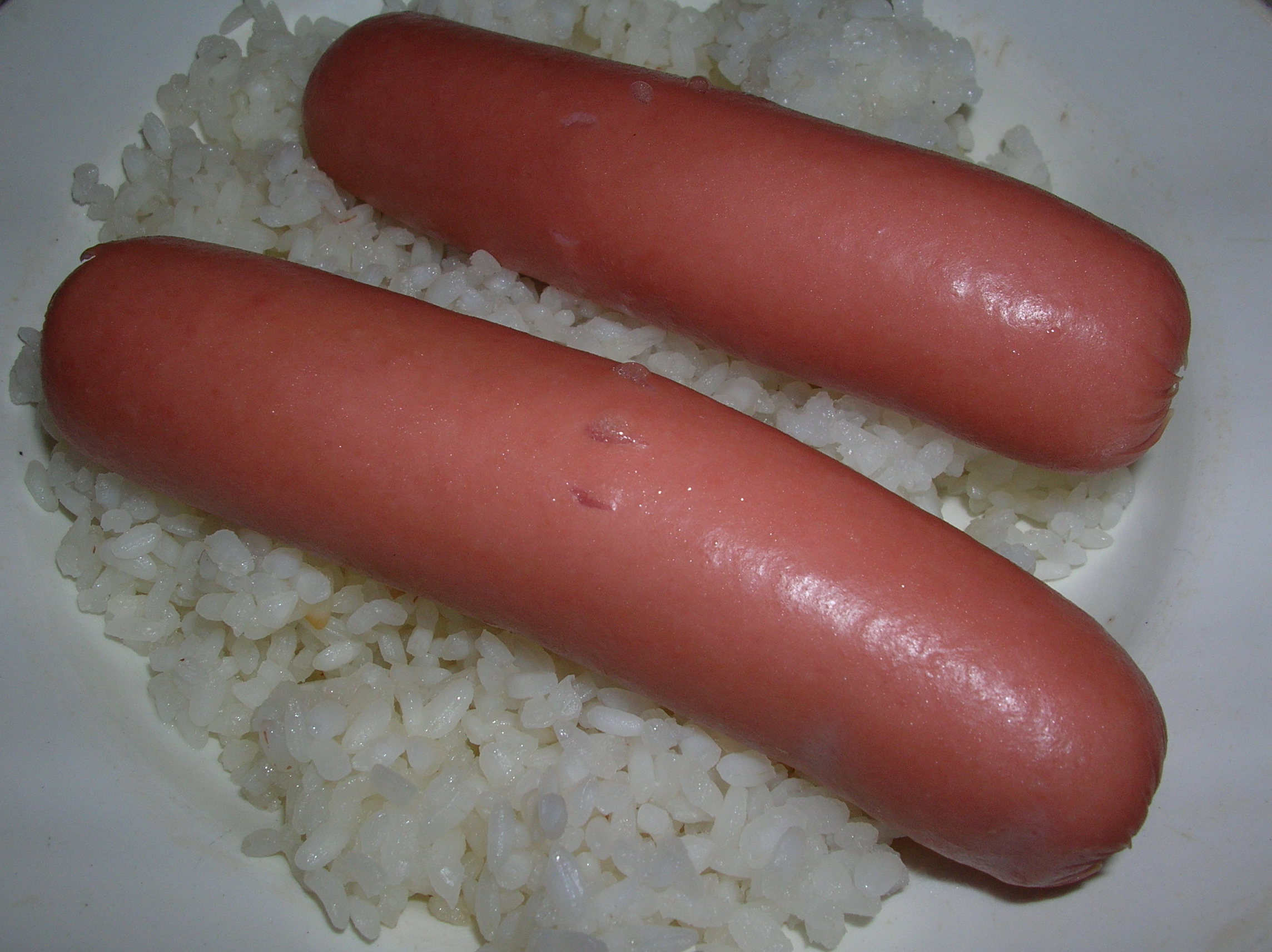 Russian sausage with rice